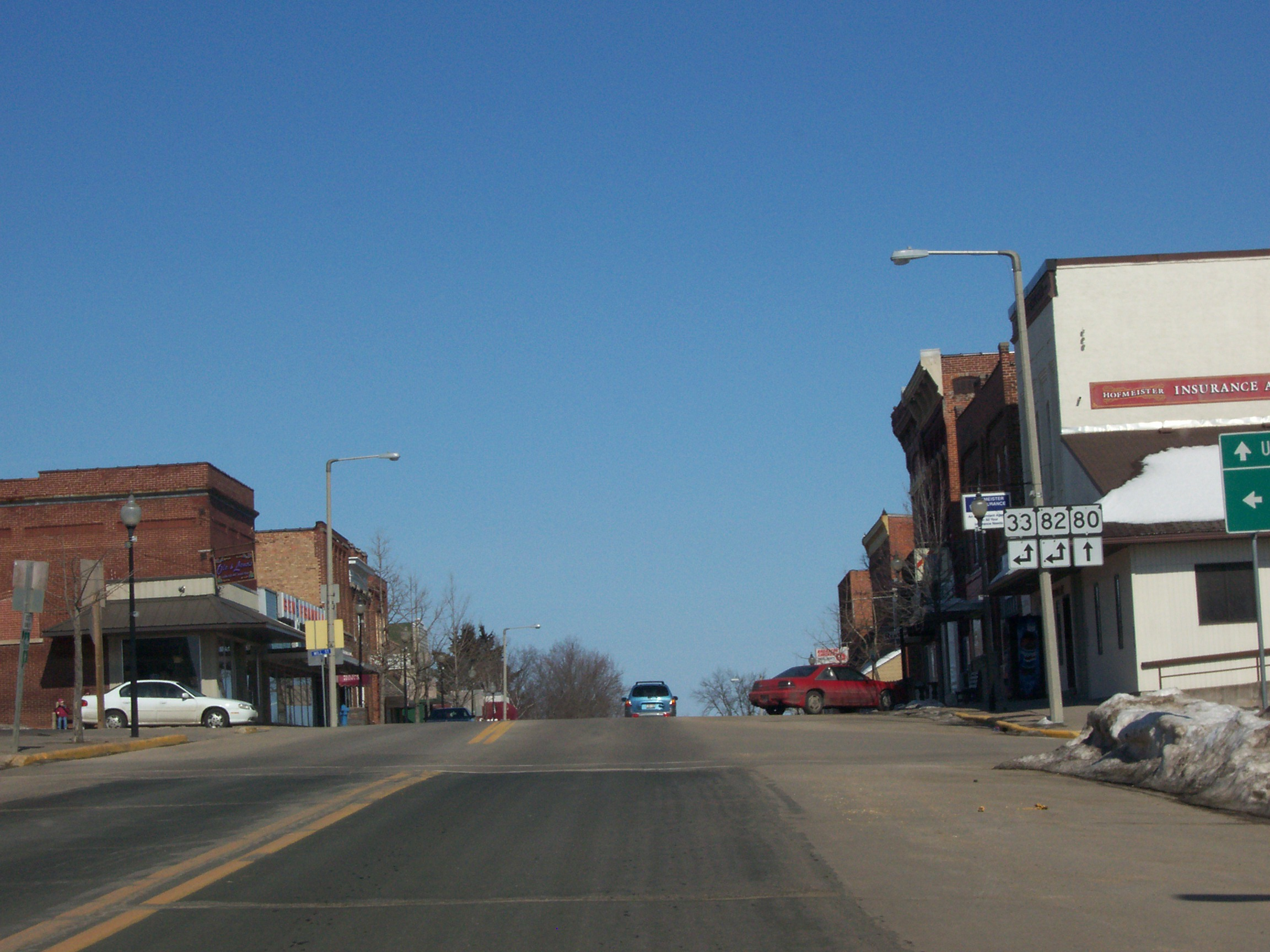 Travelling on Wisconsin Highway 80 at its intersection with Wisconsin Highways 82 and 33 in Hillsboro, Wisconsin, USA. Taken March 11, 2007 by myself.